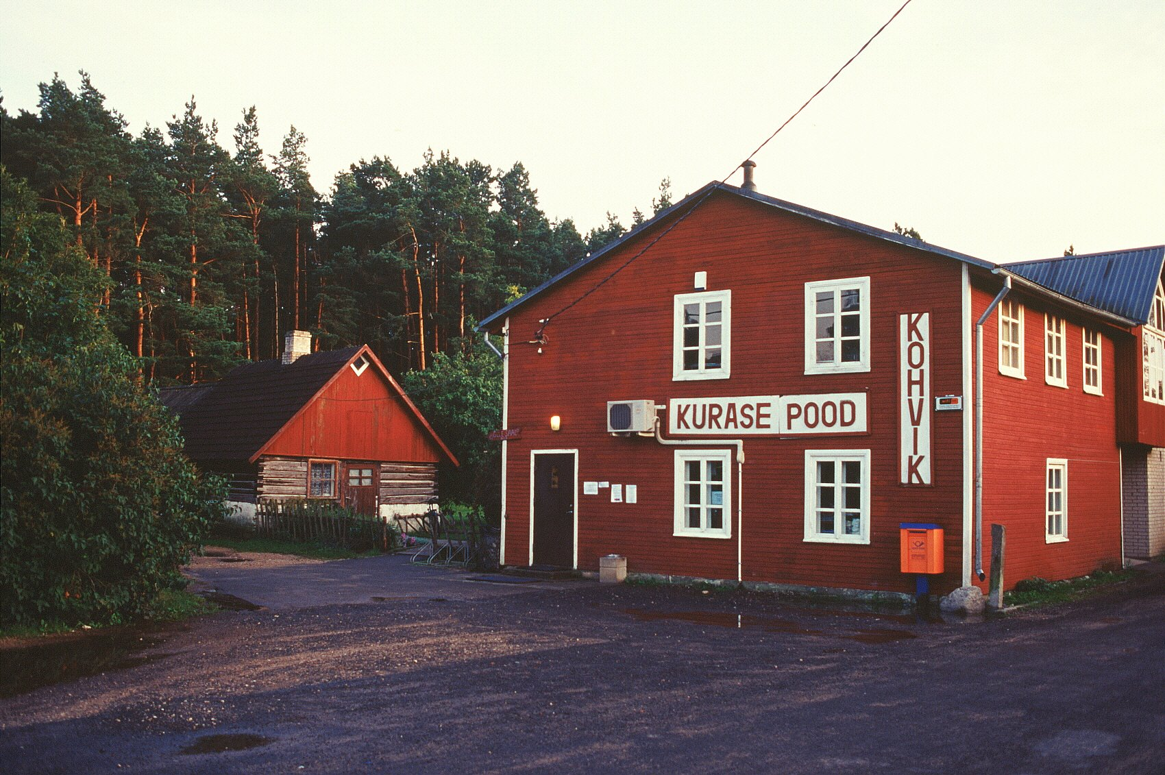 A village store on Kihnu island in Estonia